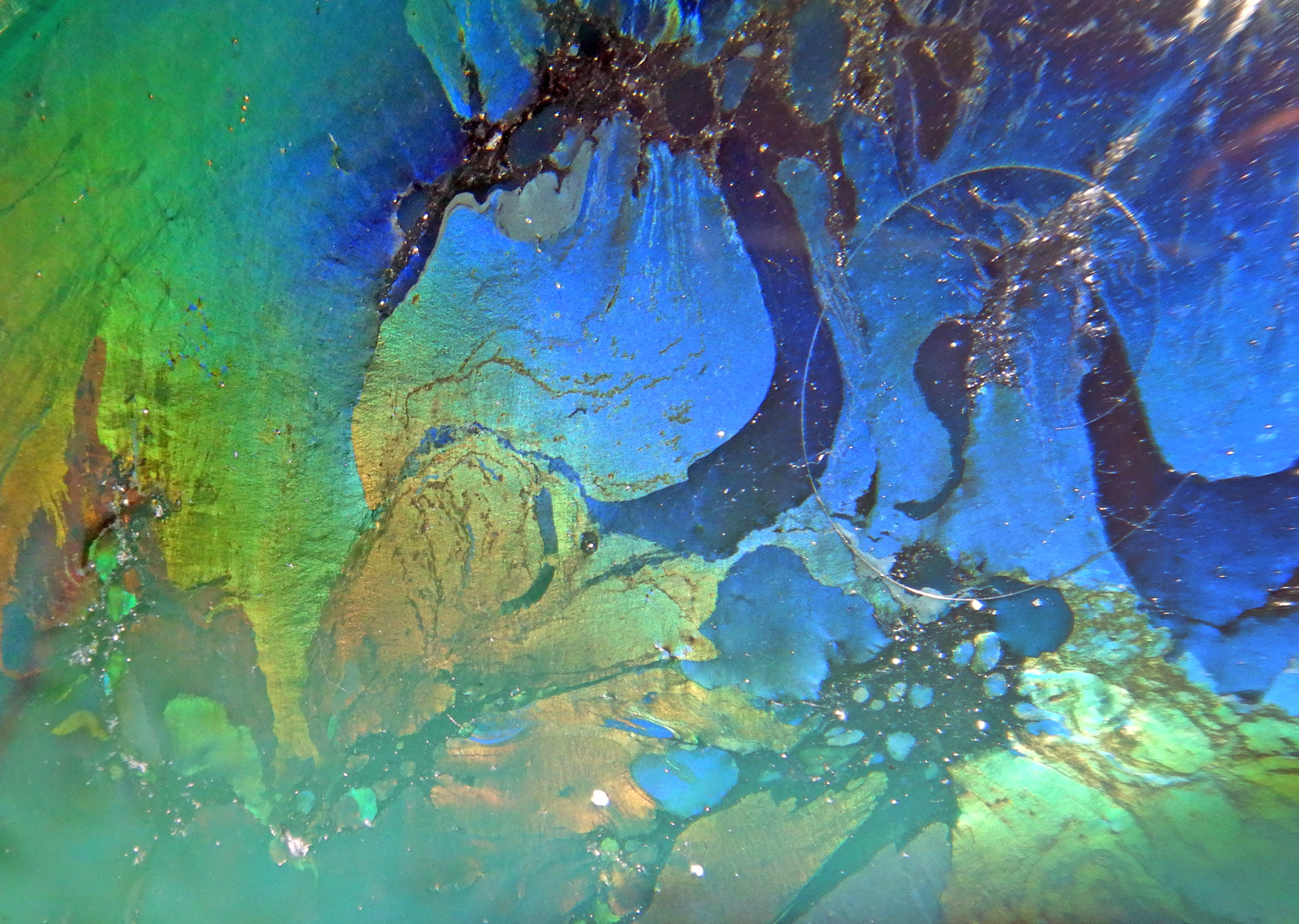 Infusory-rich biofilm photographed inside a watering can filled with rainwater, at the bottom of which there was a residue of dried organic matter.